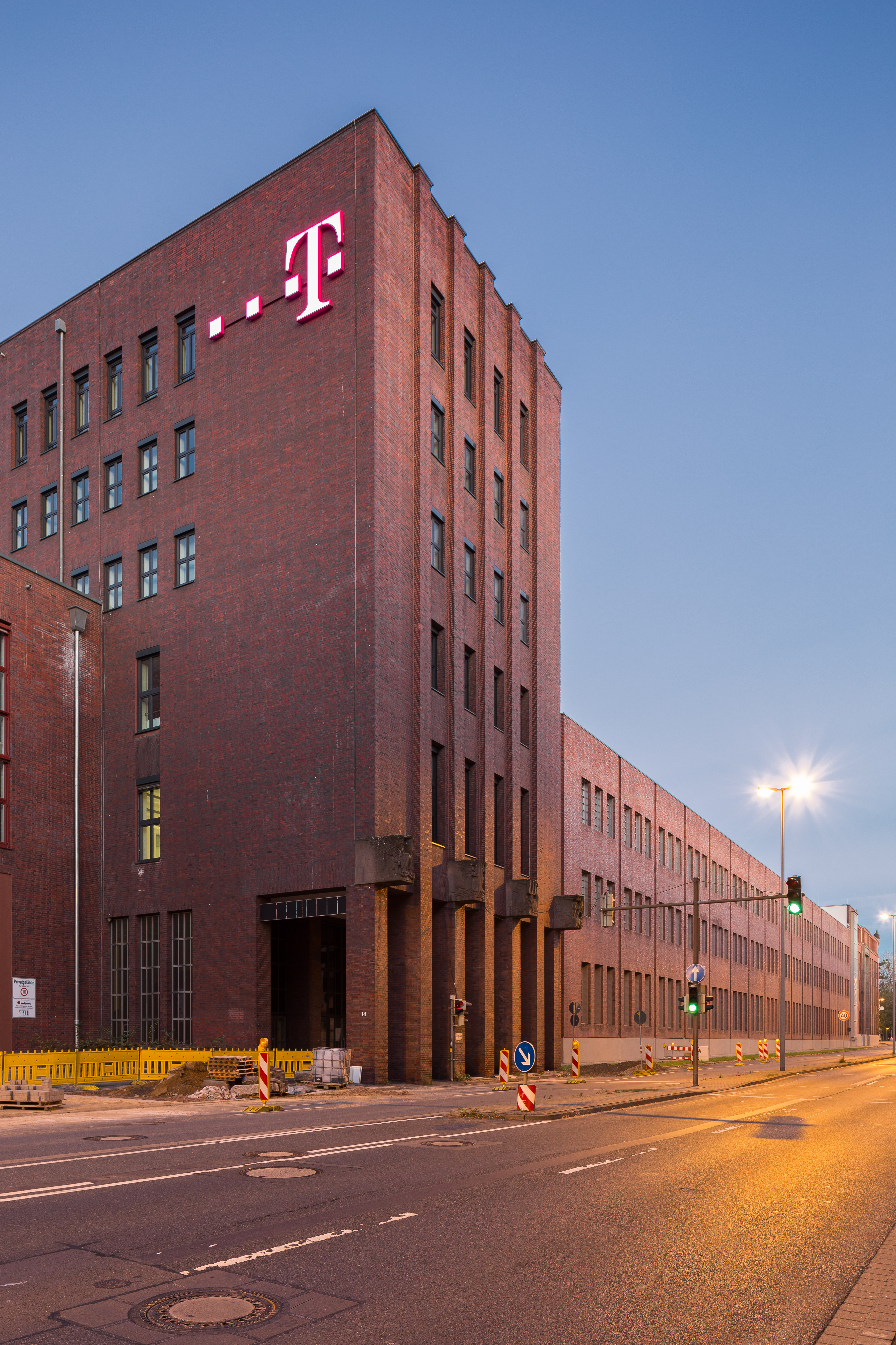 Factory building of former Hanomag company, errected in 1939/40. The building is located at Goettinger Strasse in Hanover, Germany.